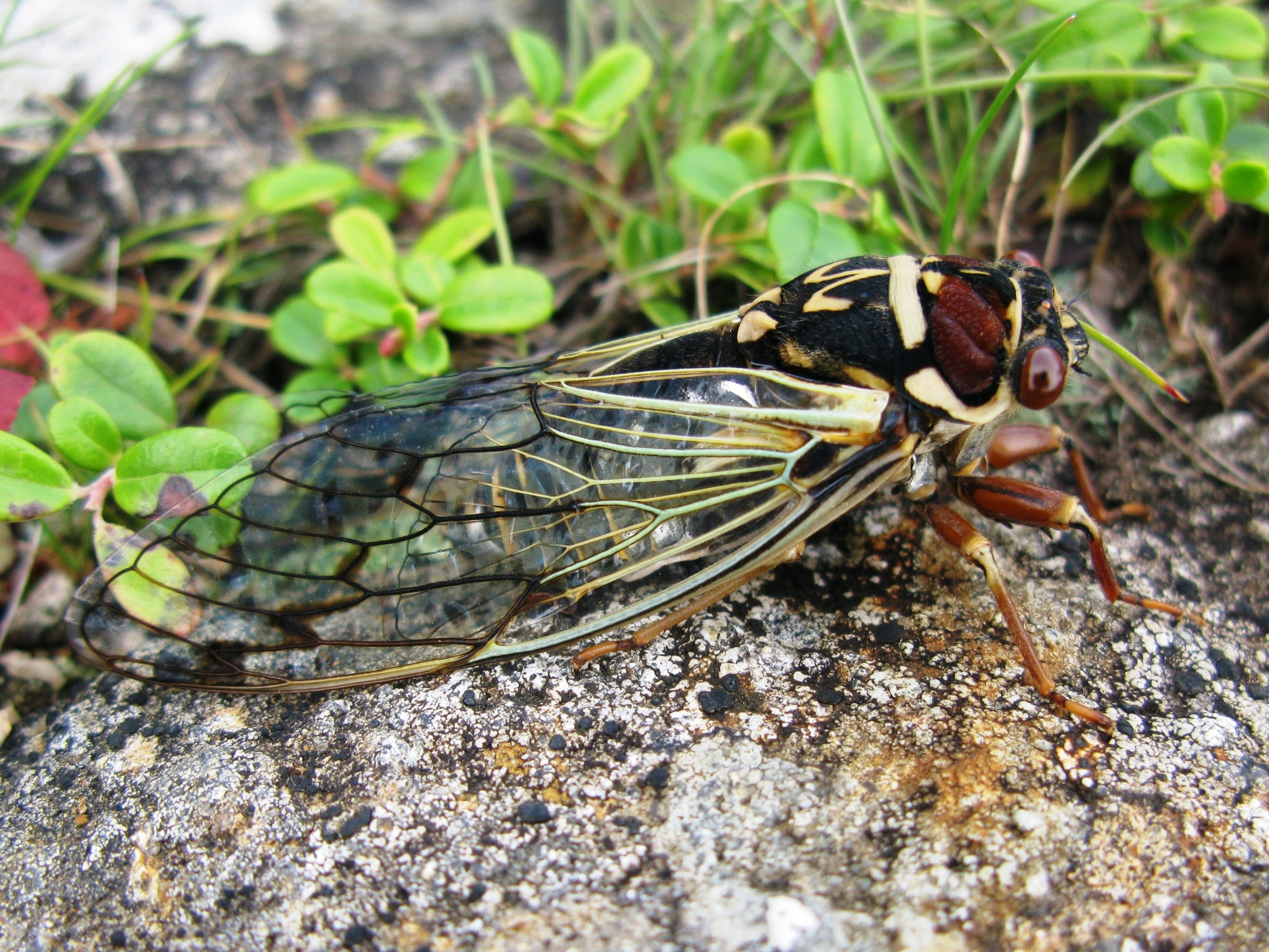 Auritibicen bihamatus, Mt. Iide, Fukushima pref., Japan